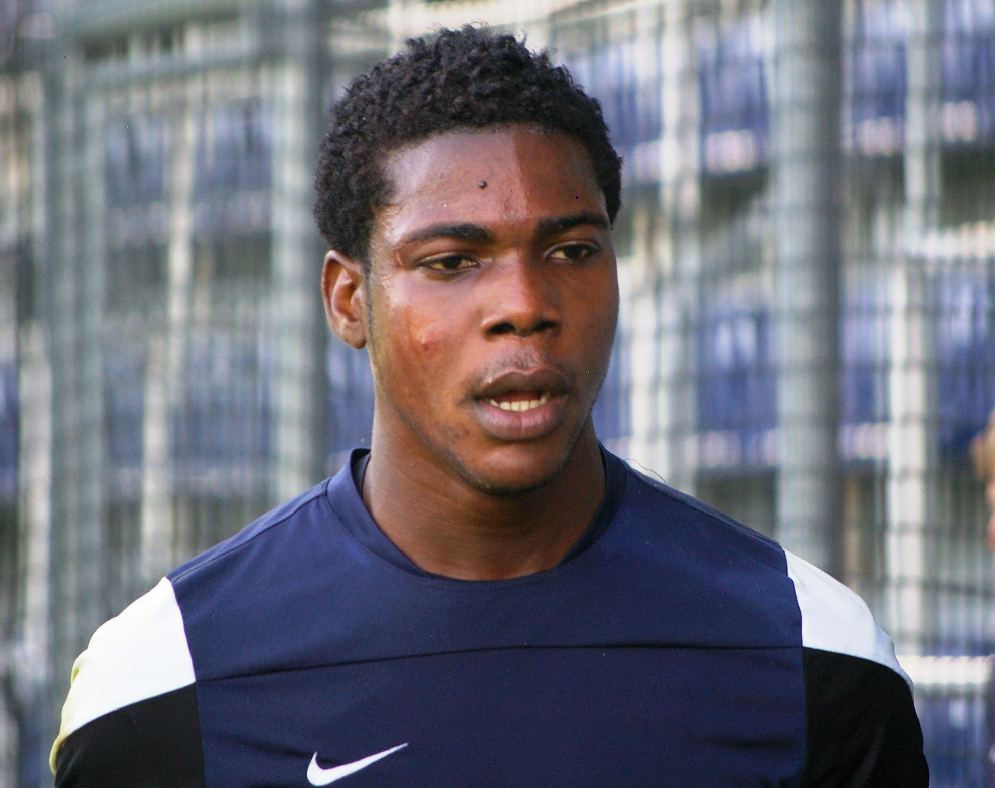 league match Austria 2nd league